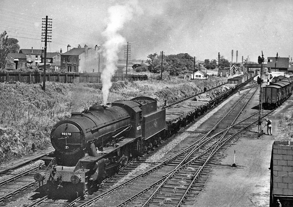 Down freight on Cheshire Lines at Glazebrook. View eastward back to Glazebrook Station; CLC main line Manchester/Stockport - Warrington and Liverpool. The train must be an important one, fully fitted, as it has Class C headlamps. The locomotive is a quite smart ex-War Department 2-8-0, No. 90278.